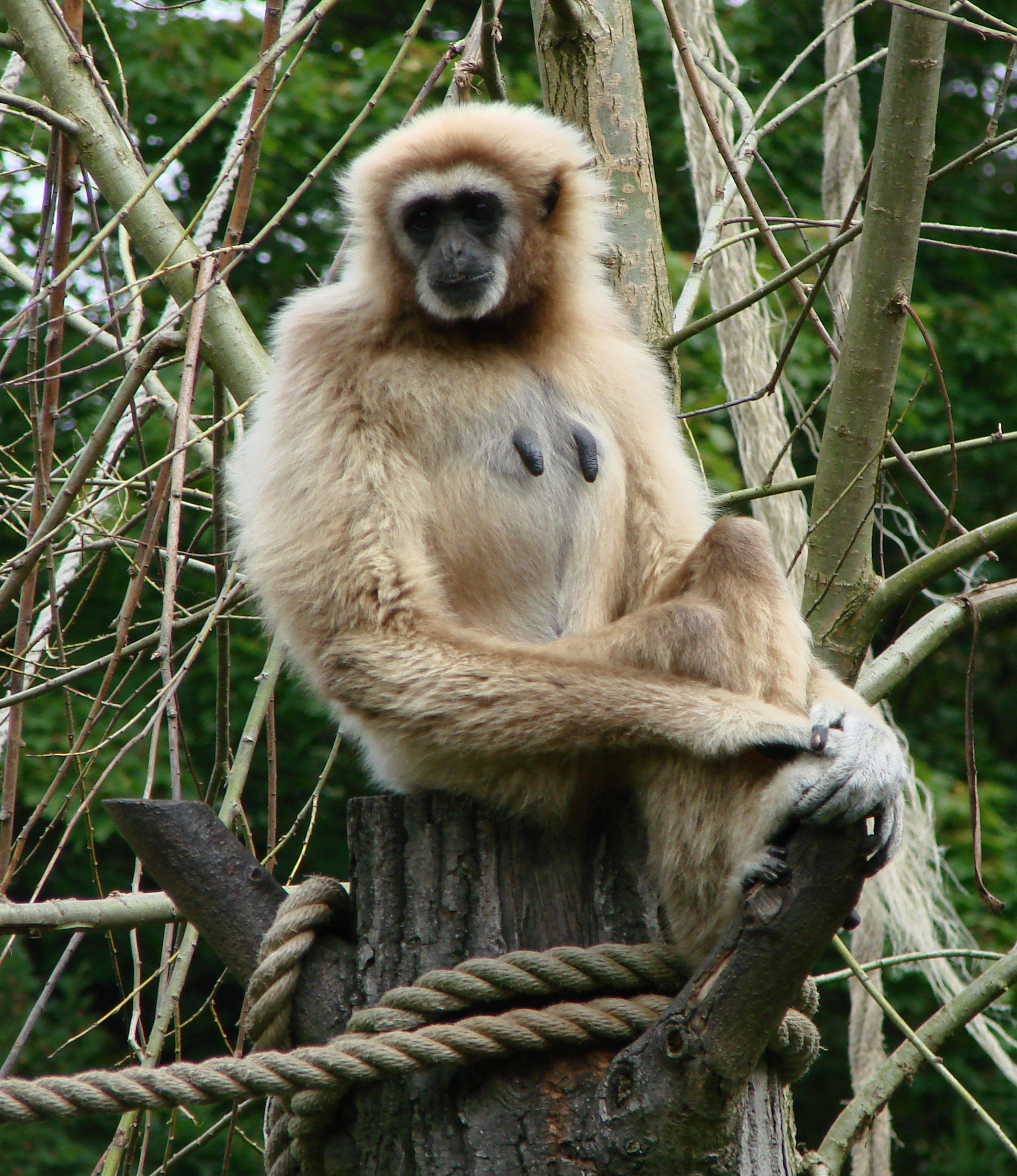 A mother white-handed gibbon (Hylobates lar).Zoo d'Amiens.